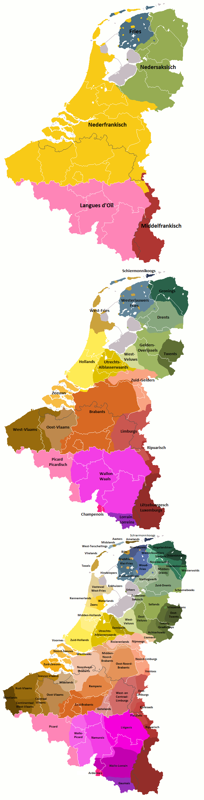 Main dialects, regional languages and minority languages in the BeNeLux